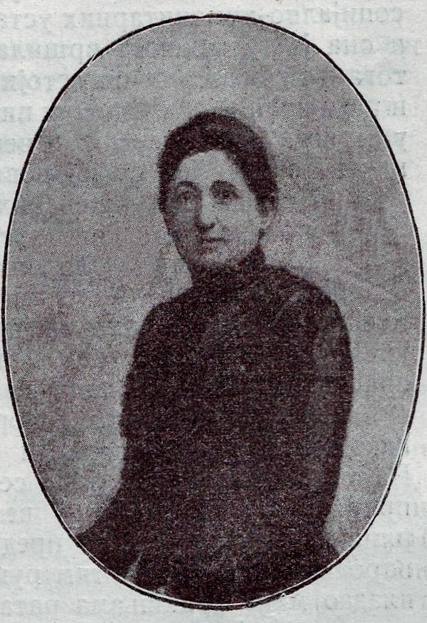 Zorka Hovorkova (1865-1939), Serbian writer and translator. Taken from the illustrated calendar Ženski svet (1910). Srpski (latinica): Zorka Hovorkova (1865-1939), srpska književnica i prevodilac. Preuzeto iz izdanja ilustrovanog kalendara Ženski svet za 1910. godinu.